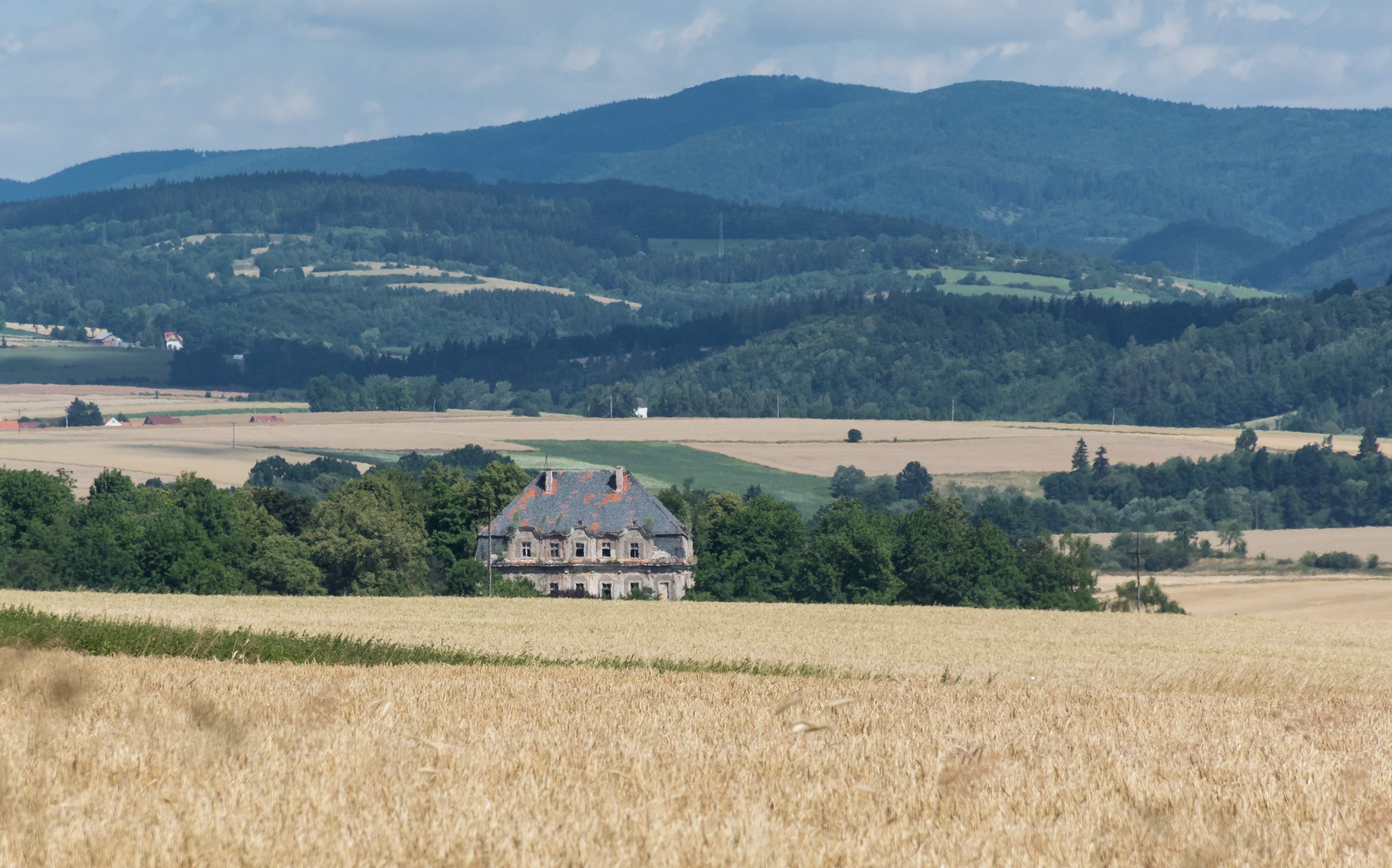 Palace in Piszkowice